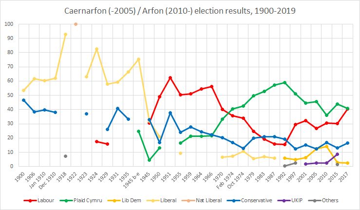 Caernarfon election history